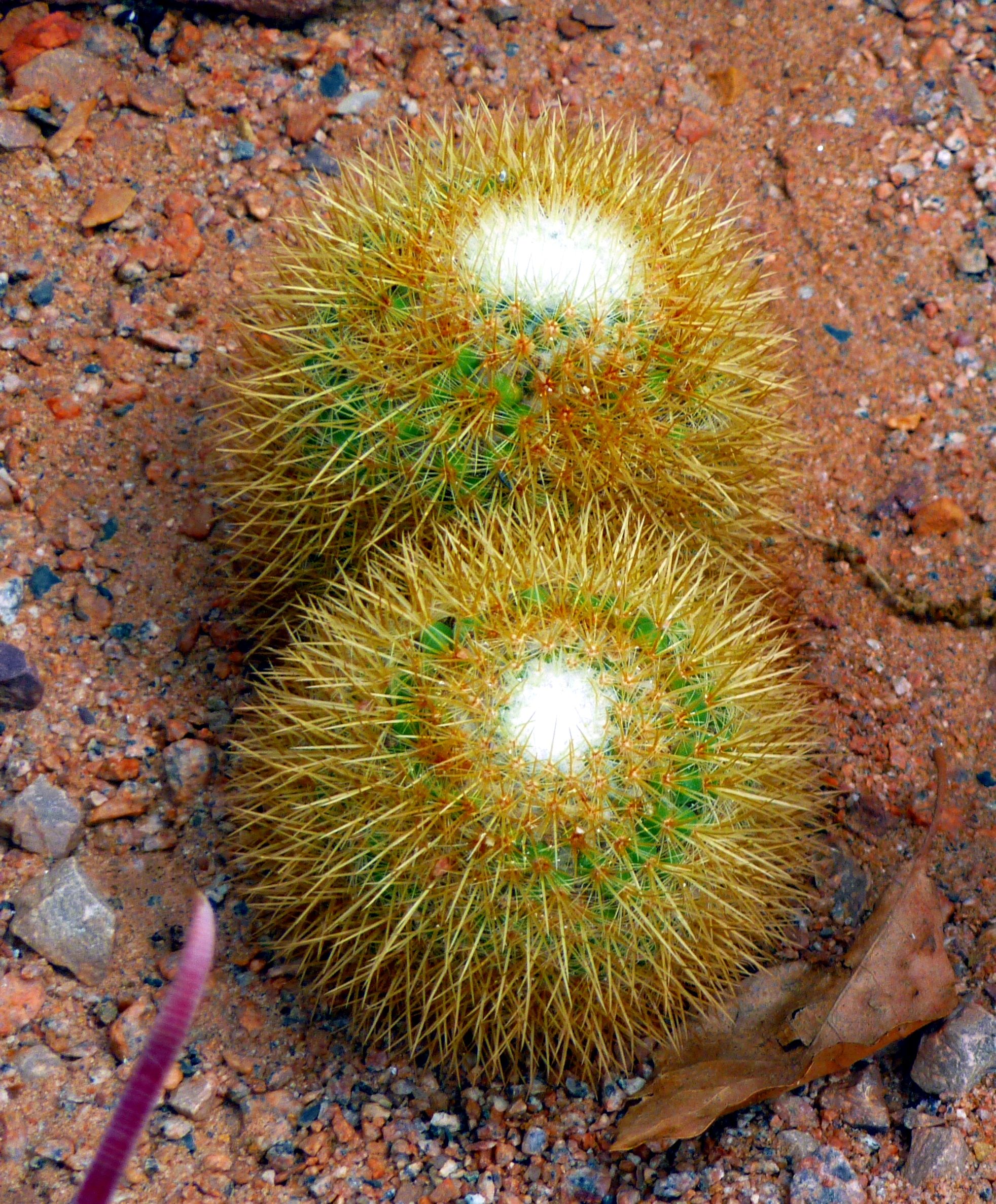 Taken in the Cambridge University Botanic Garden